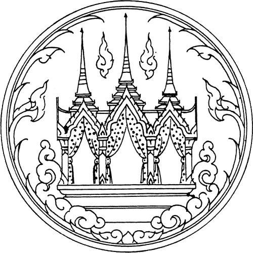 Provincial seal of Nakhon Sawan province.